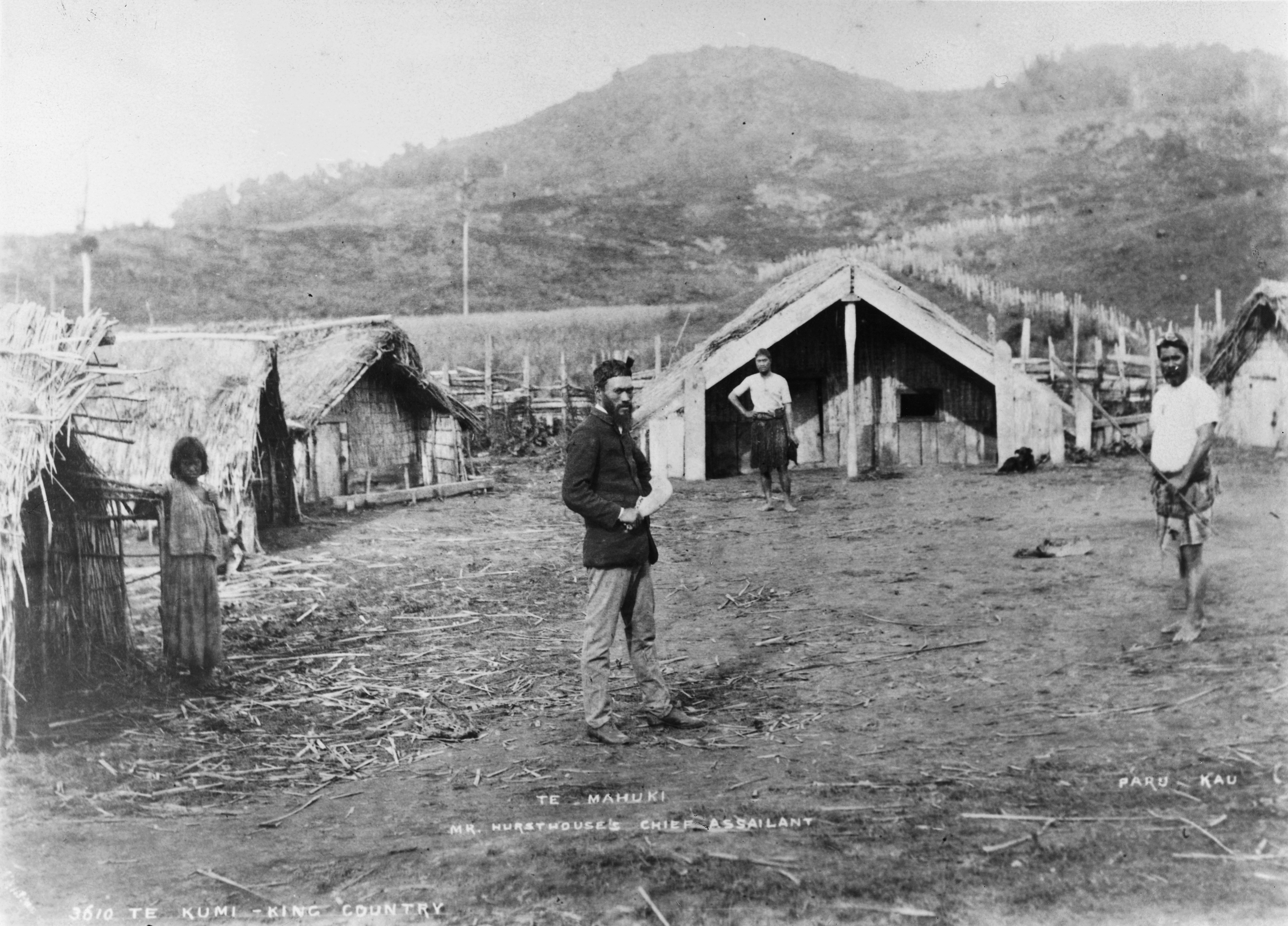 Te Mahuki (centre), Paru Kau (far right), and others at a Maori village at Te Kumi in 1885. Photograph taken by Alfred Burton on 4 June 1885.